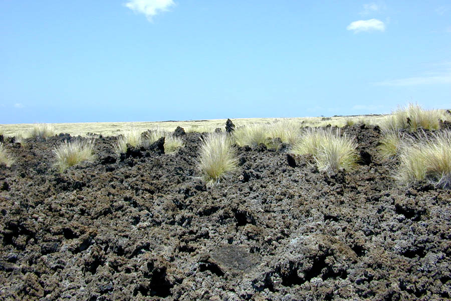 An older `a`a flow on Hualalai at about 300 feet (91 m) elevation.